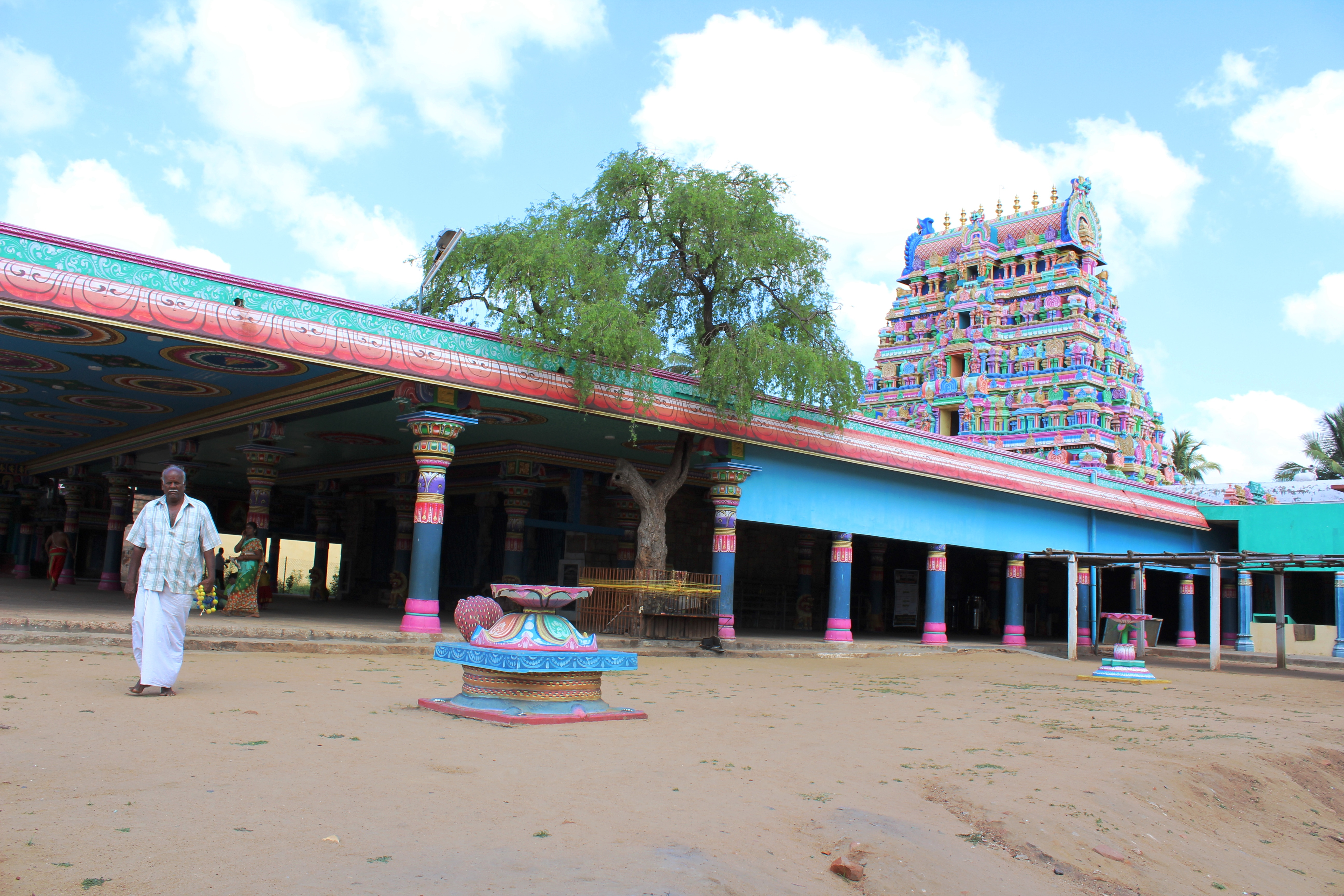 Patteeswaram